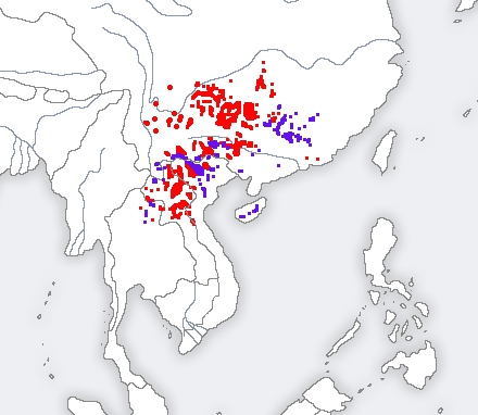 Map of Hmong-Mienic language family. [Hmong languages in blue, Mien languages in red.]